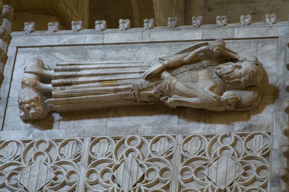 Alphonse II of Aragon